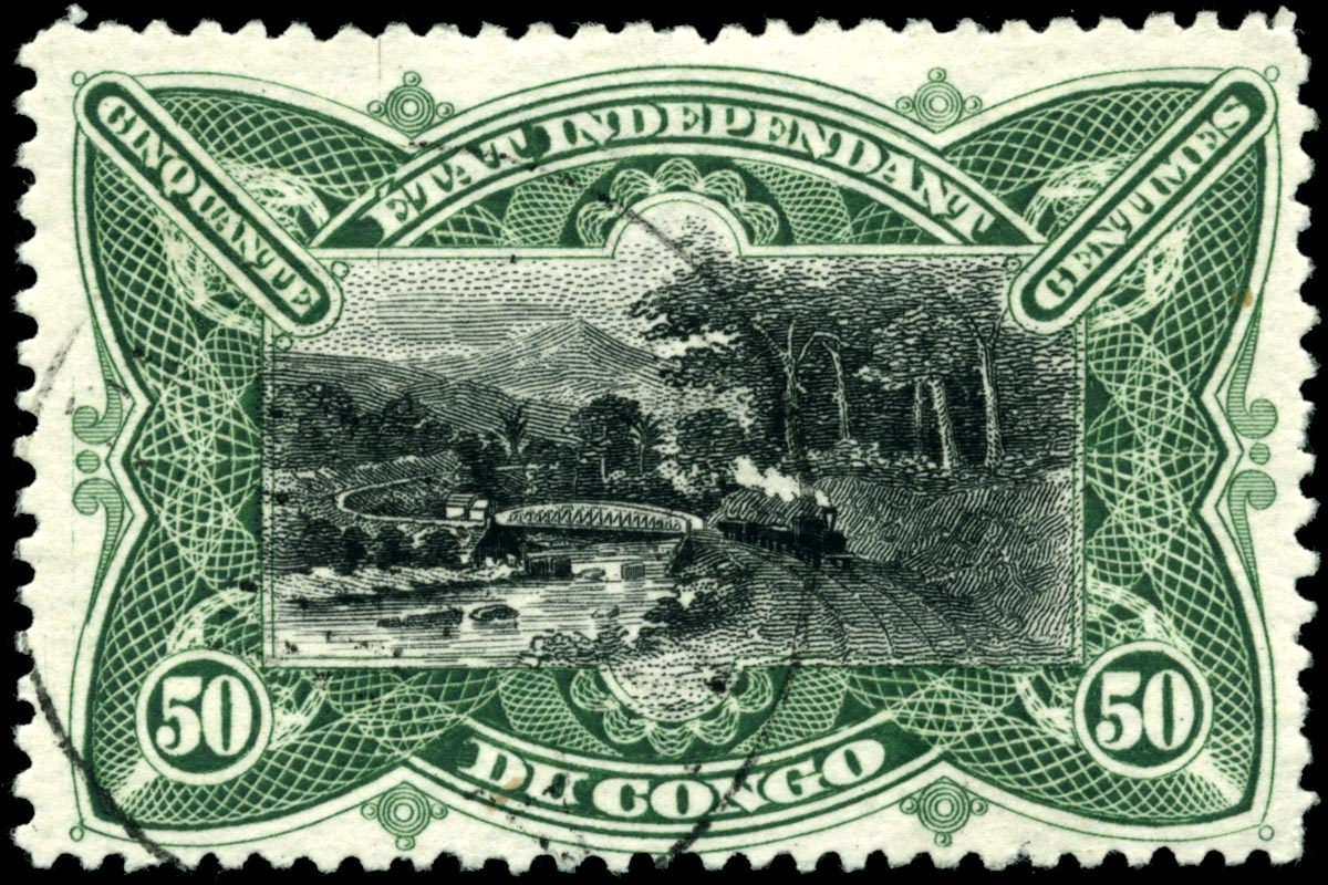 Congo Free State 50-centime stamp of 1894